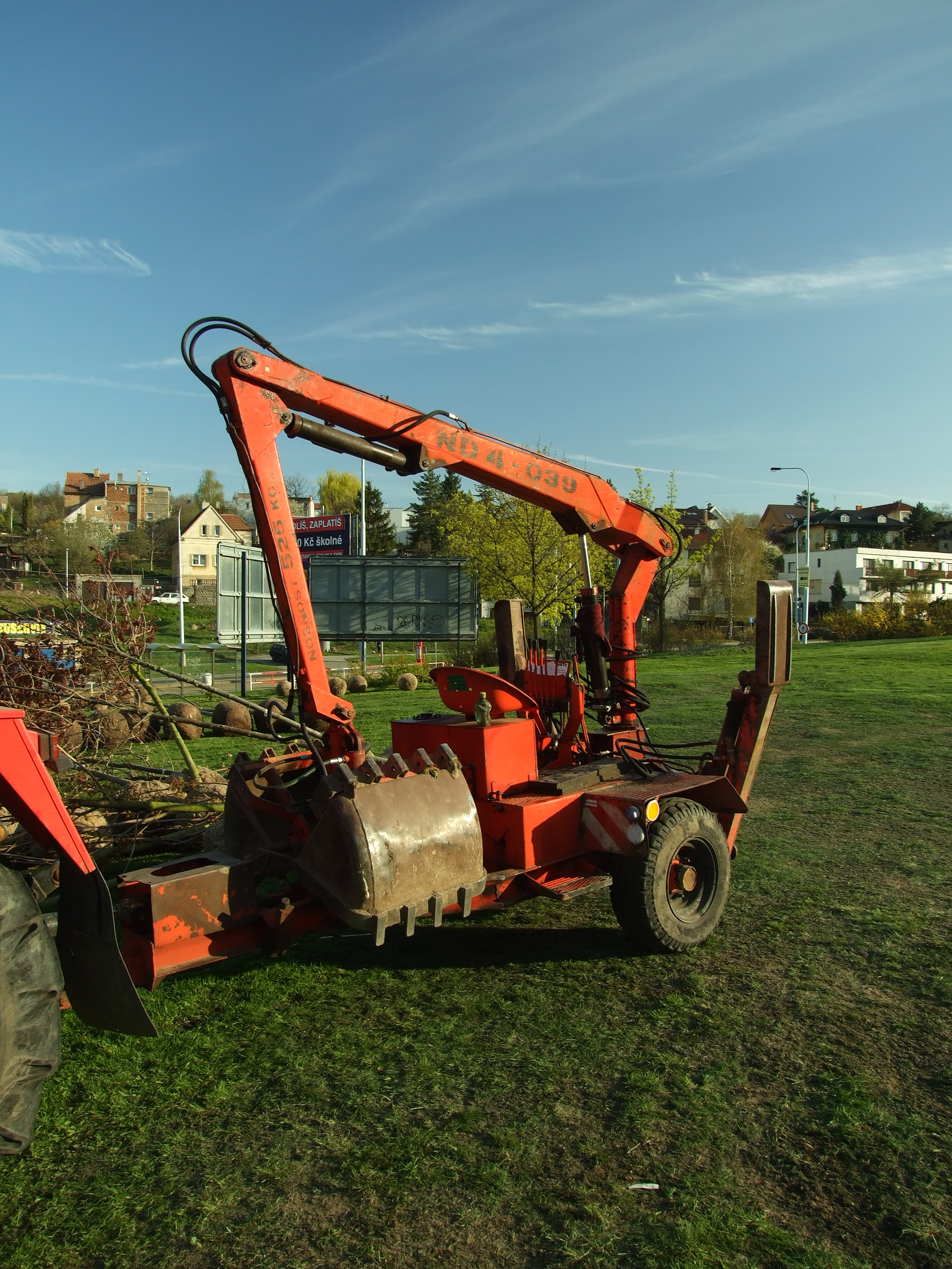 New trees planted in Prague-Řepy during Earth Day 2010, Prague, CZ